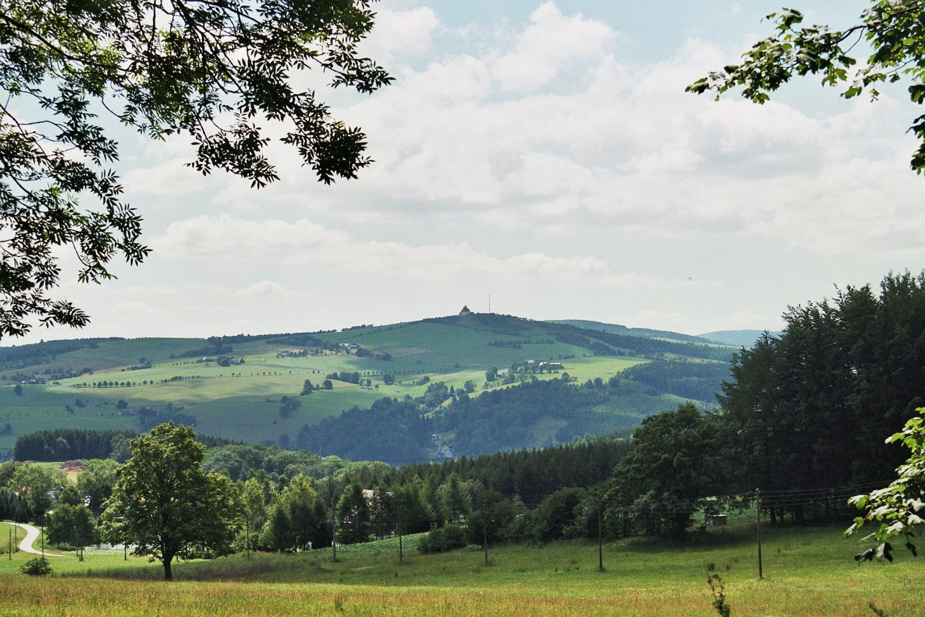 This image shows the Schwartenberg (789 m) in the ore mountains.